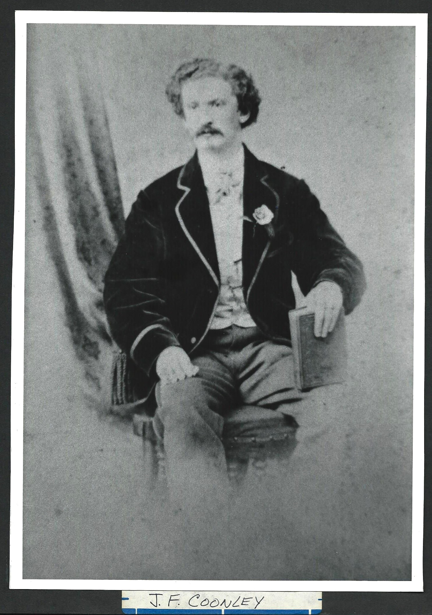 Jacob Frank Coonley